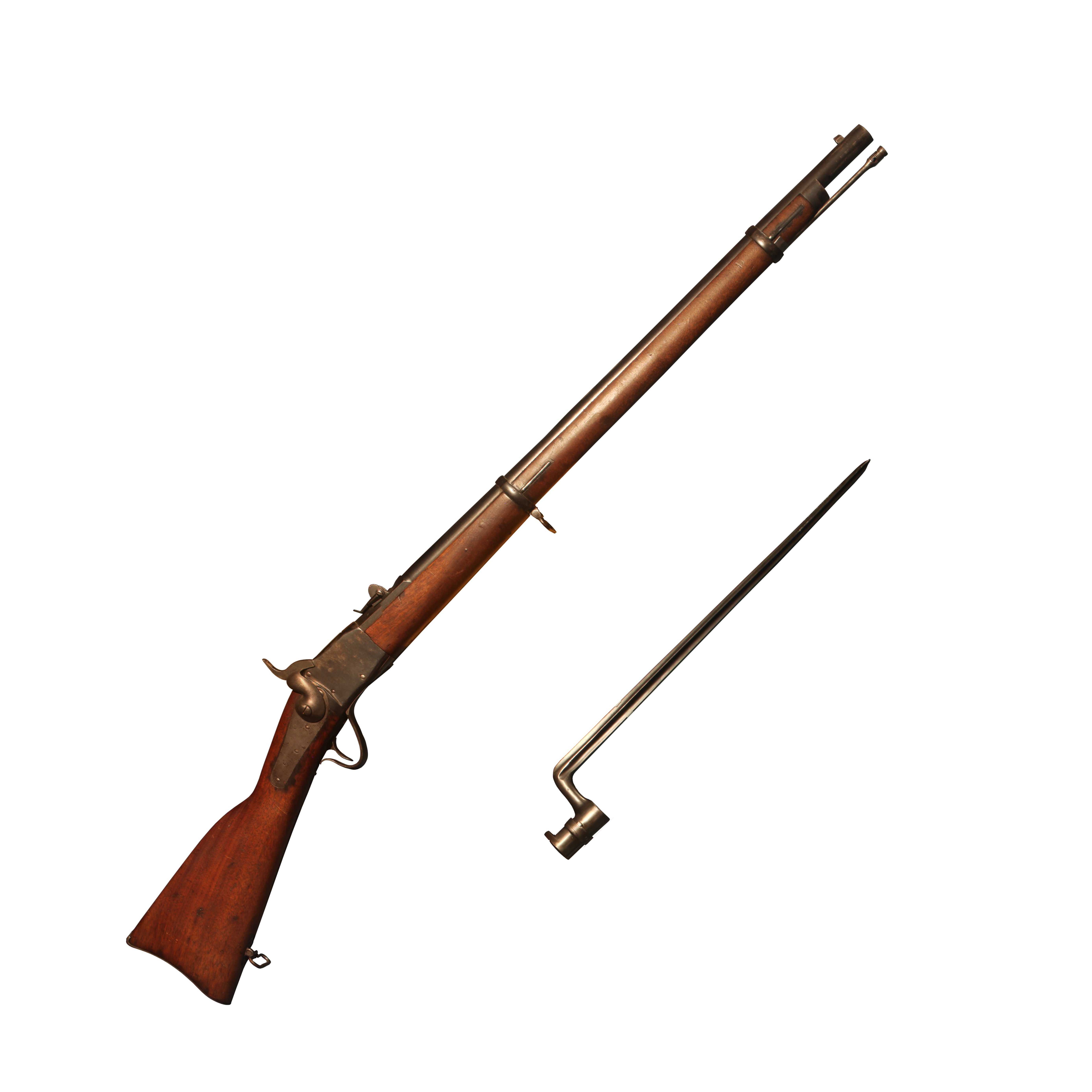 Peabody rifle, model 1867, rifled, 10.4mm. On display at Morges military museum.